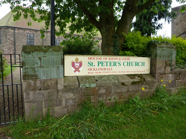 St Peter's Church, Sicklinghall, Sign, Data from Geograph: Description: SE3548 :: St Peter's Church, Sicklinghall, Sign, near to Sicklinghall, North Yorkshire, Great Britain ICBM: 53.929589710948, -1.454745277514 Location: (about 0 km from) near to Sicklinghall, North Yorkshire, Great Britain.